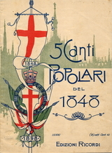 Cover of 5 Canti Popolari del 1848, an anthology of patriotic songs published in Milan by Ricordi in 1898 to commemorate the 50th anniversary of the 1848 Italian Revolution.